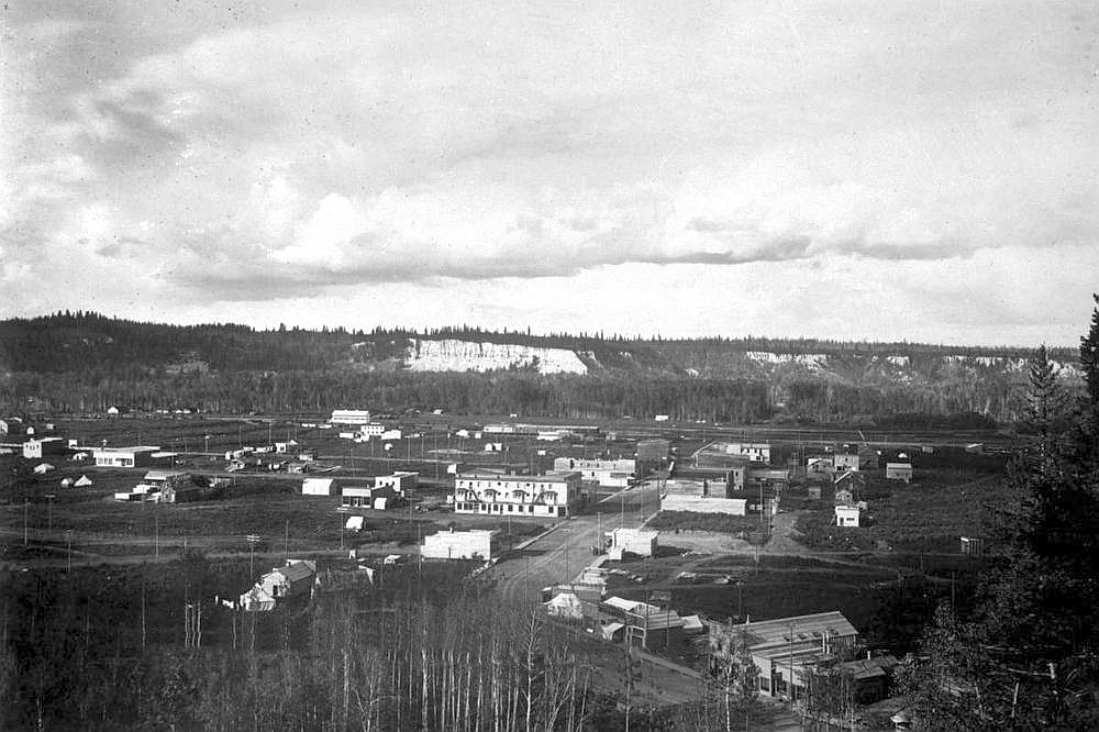 Prince George, British Columbia.